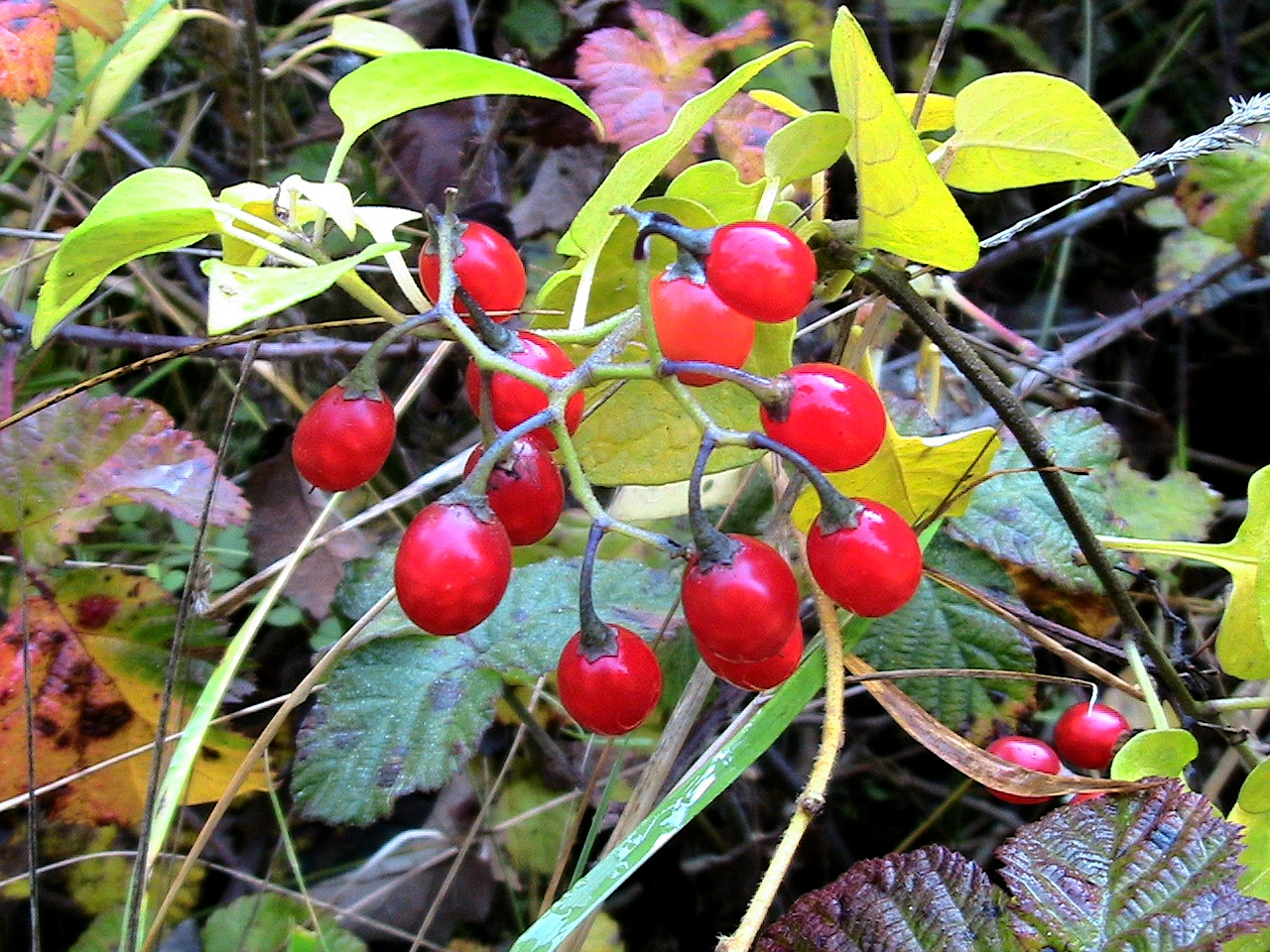 Solanum dulcamara . In Pinós (Solsonès - Catalunya). To 575 m. altitude